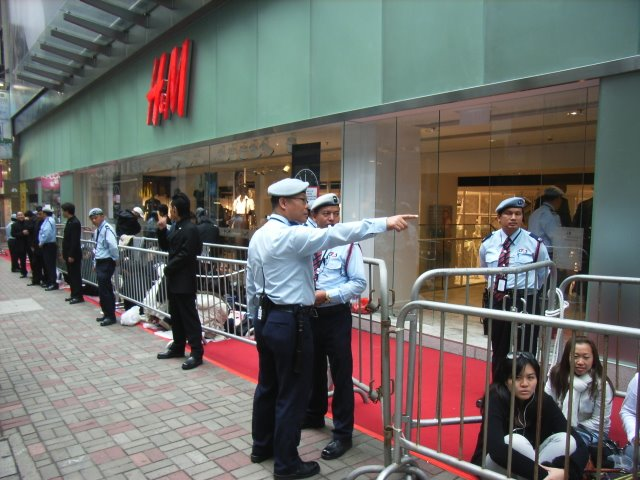 Customers await the Grand Opening of a famous fashing shop, H&M, in Hong Kong.